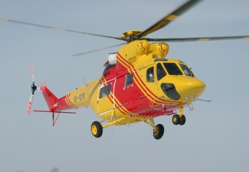 Pzl Sokół